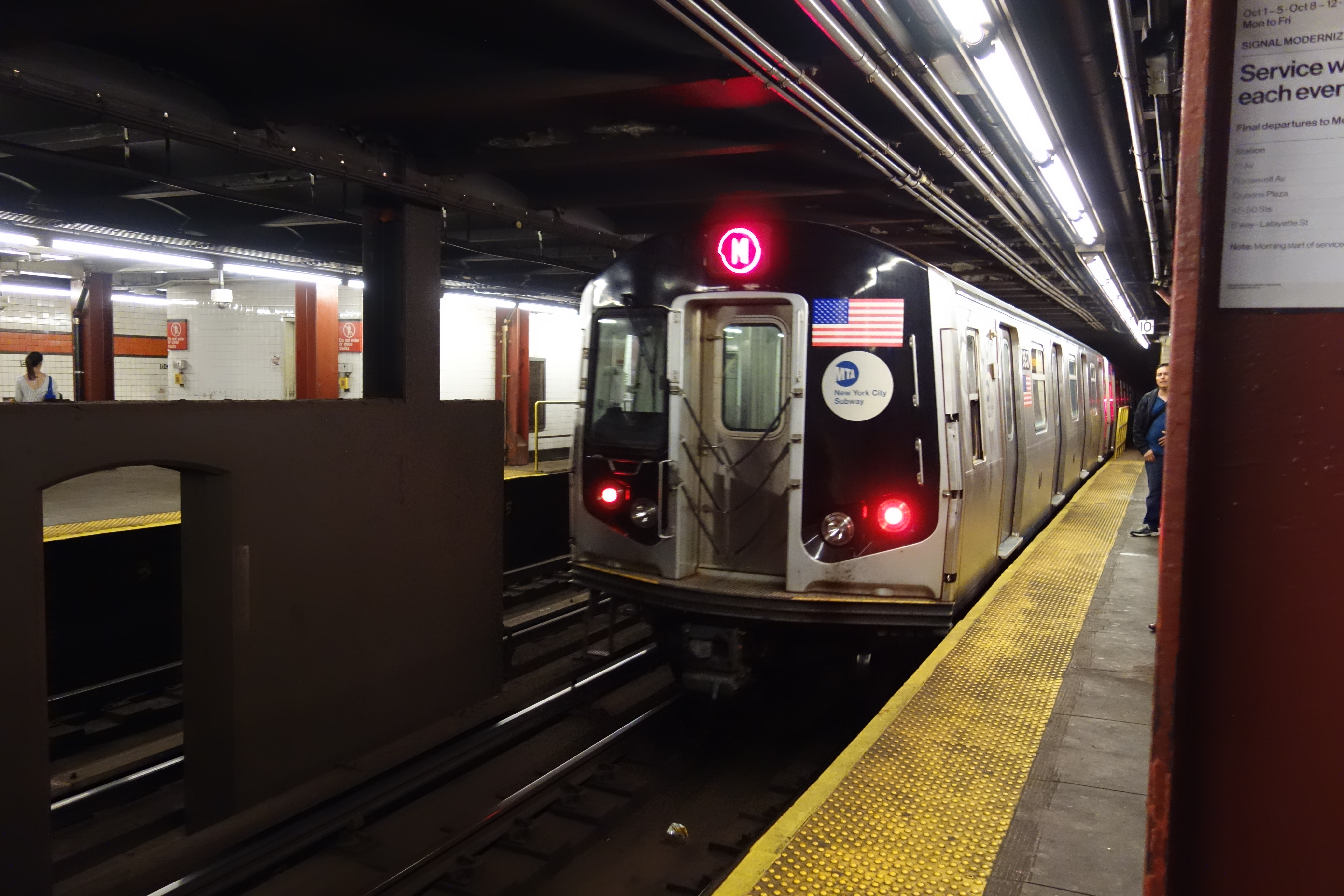 A Metropolitan Avenue-bound M local train leaving the Downtown platform of the 47th–50th Streets–Rockefeller Center station of the IND Sixth Avenue Line in Midtown Manhattan. Due to the complex track configuration north of the station, local trains from the IND Queens Boulevard line stop at what would be the express track, then the track crosses over to the local side south of the station.